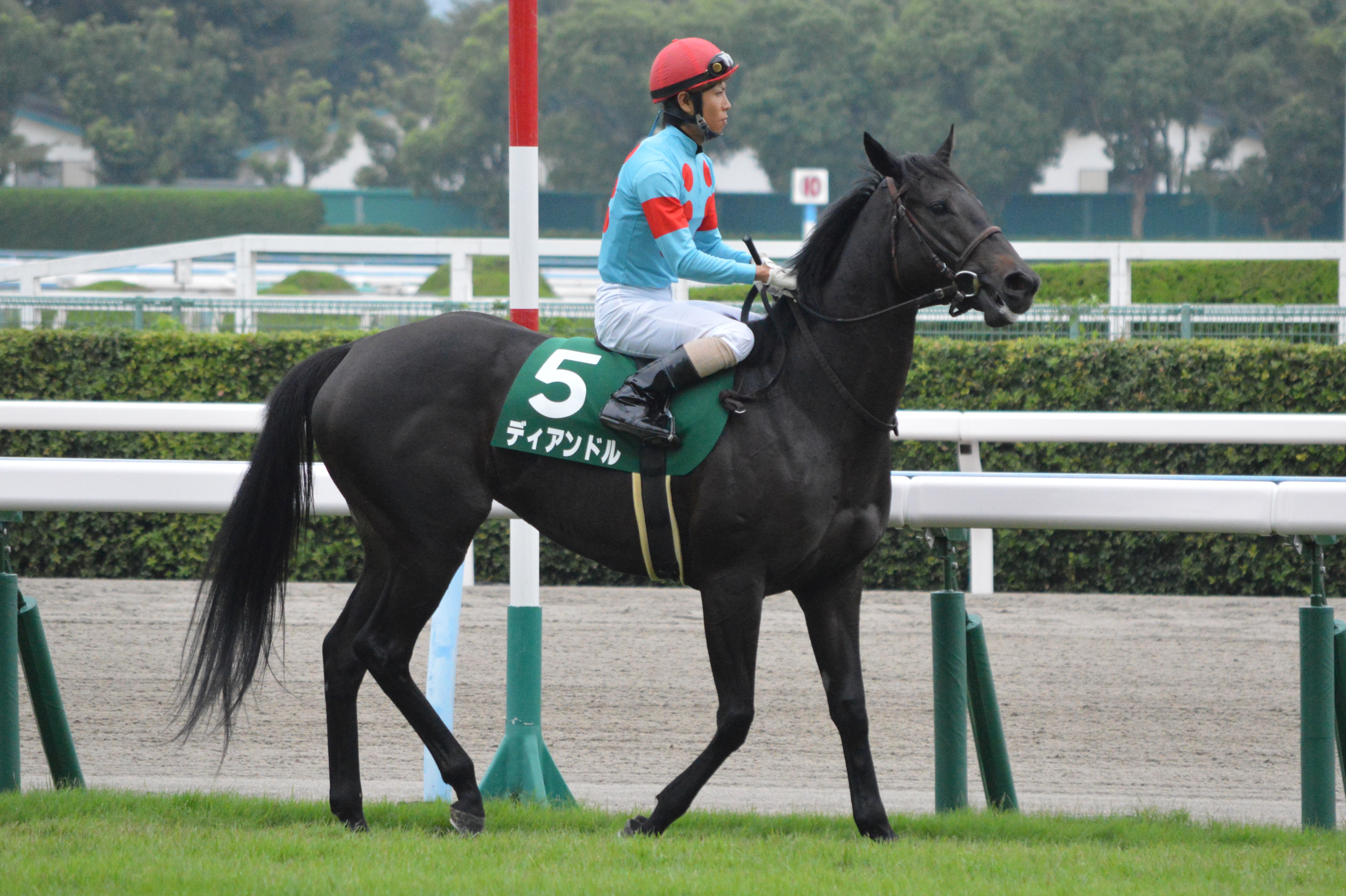 Japanese race horse Dirndl at Kokura racecourse.